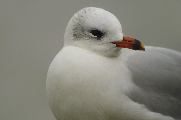 Mediterranean gull, (Larus melanocephalus) adult in winter plumage. Photographed in Gothenburg, Sweden.